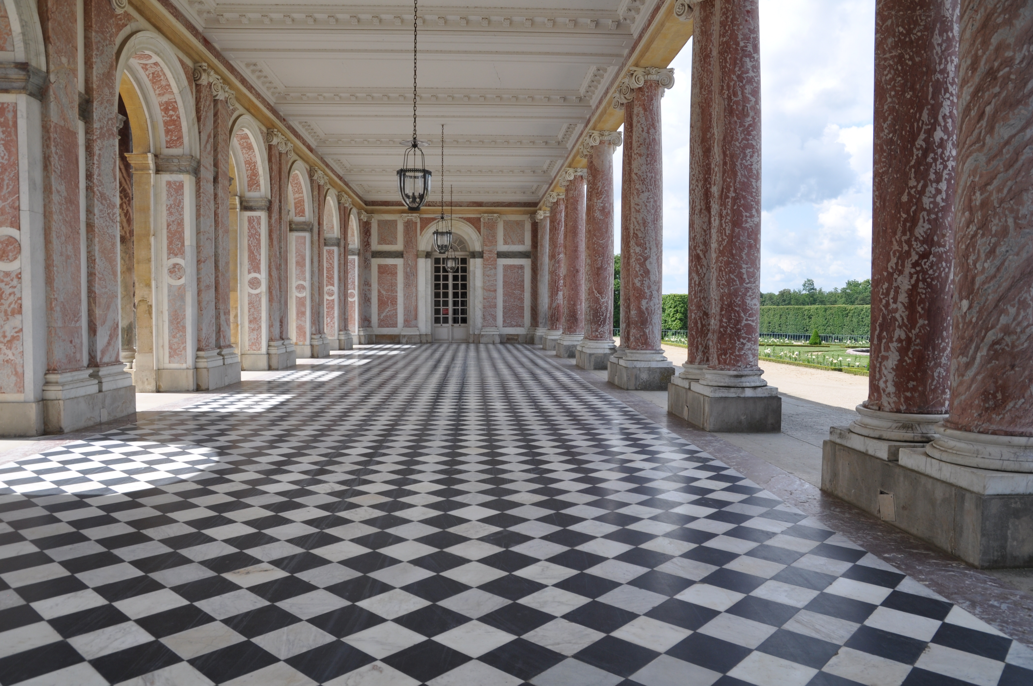 Peristyle, Grand Trianon (tourist-free shot...)